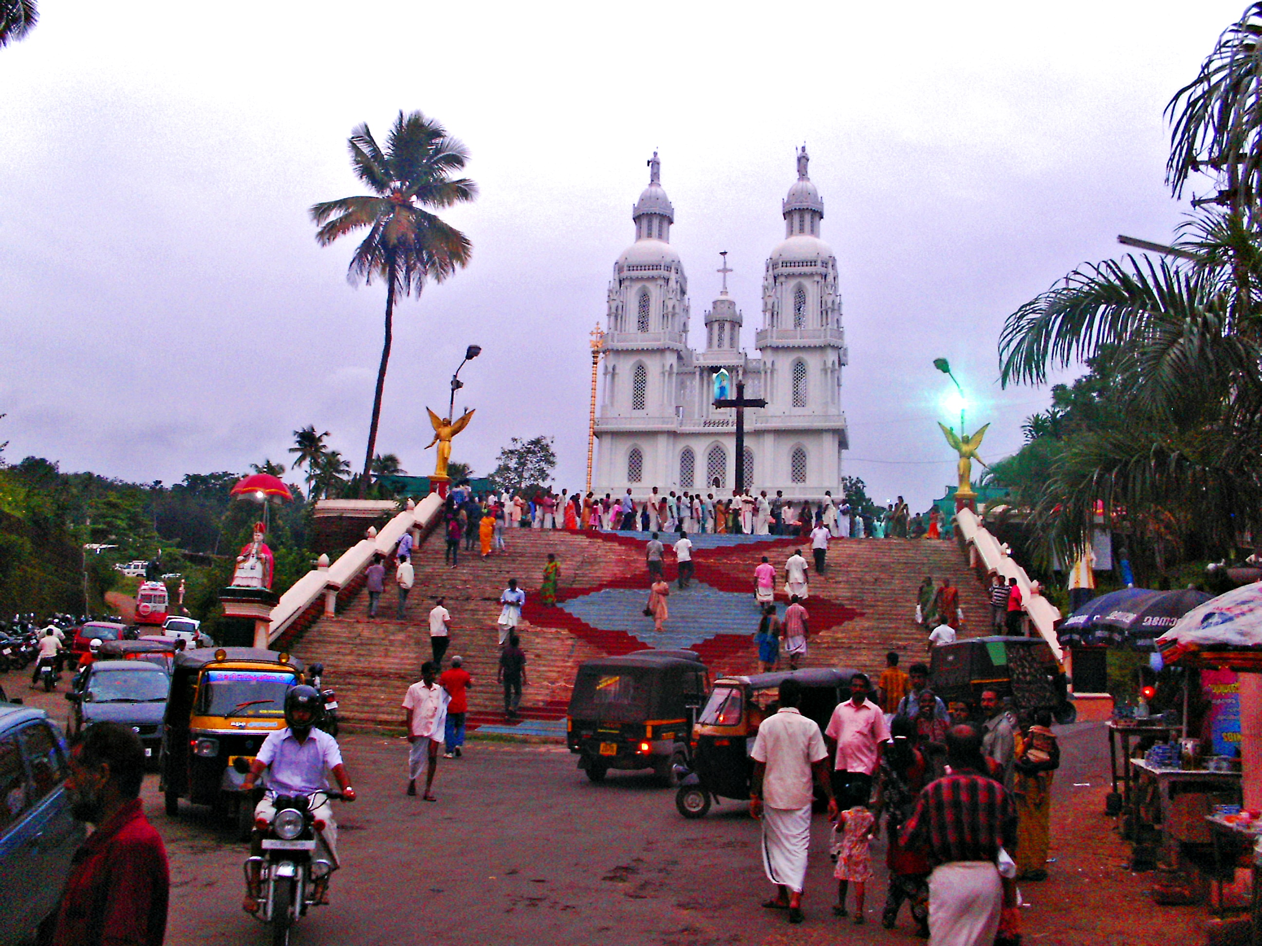 Evening scene St. Mary`s Forane Church Kuravilangad, Kerala, India